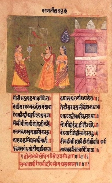 Queen Nagamati talks to her parrot, an illustrated manuscript of Padmavat, by Malik Muhammad Jayasi. c1750. North India.